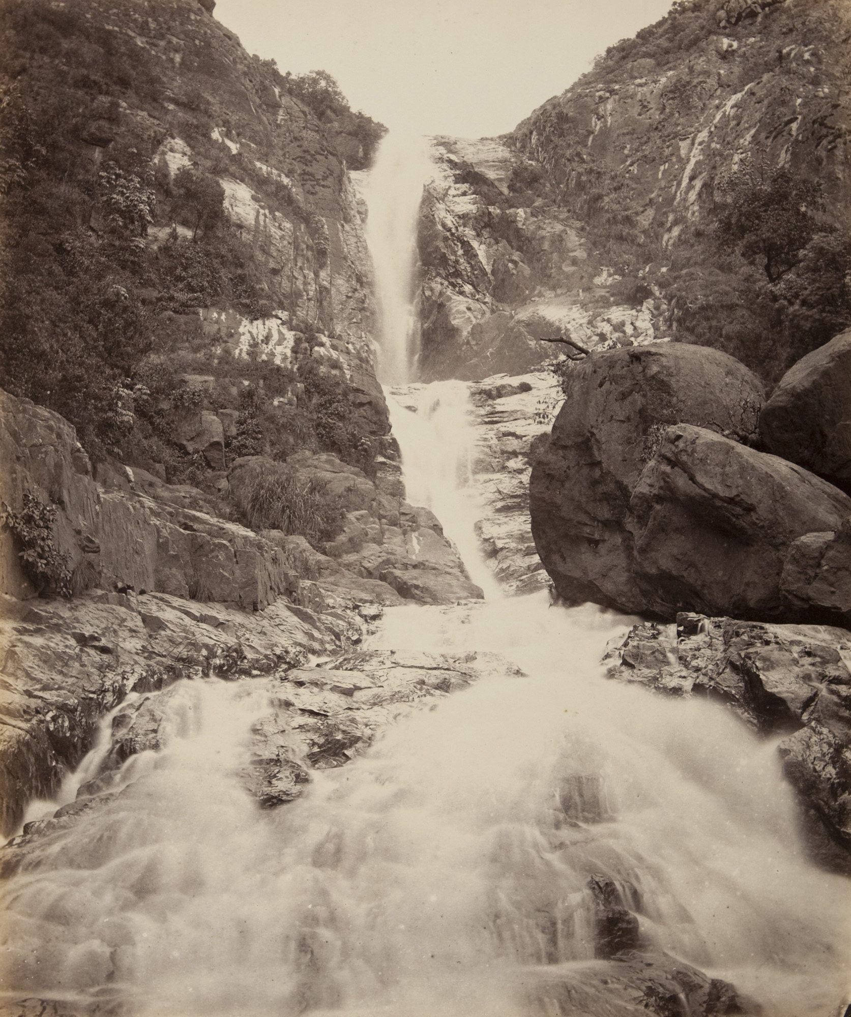 Artist: Edmund David Lyon Artist Bio: British, c. 1829 - 1891 Creation Date: c. 1865-1871 Process: albumen print Credit Line: Gift of the Catherine and Ralph Benkaim Collection Accession Number: 2006.045.081